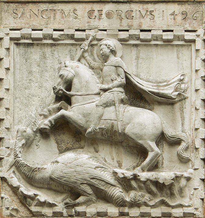 Venice, Campo San Zuliàn, Renaissance relief of Saint George, dated 1496.